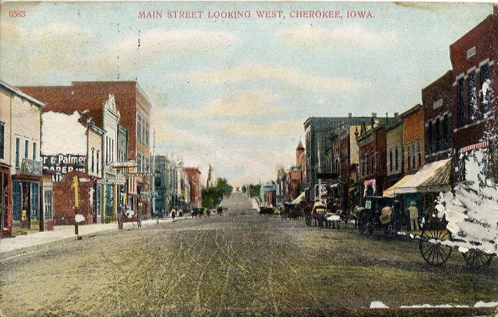 Postcard of Cherokee, Iowa main street